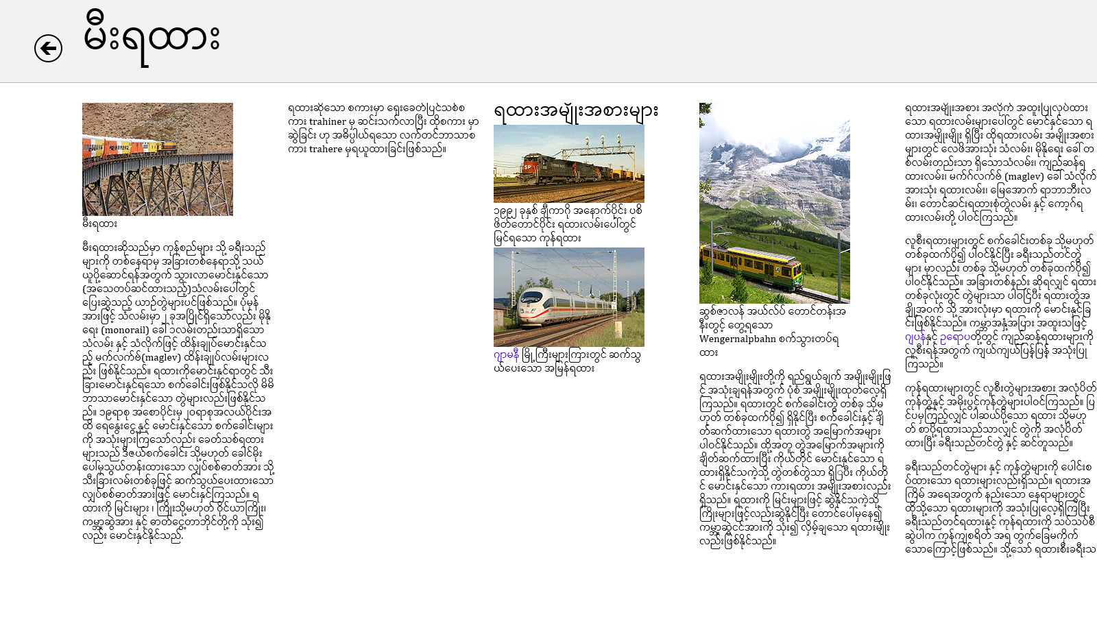 Wikipedia in Windows 8 showing article in Burmese for the first time